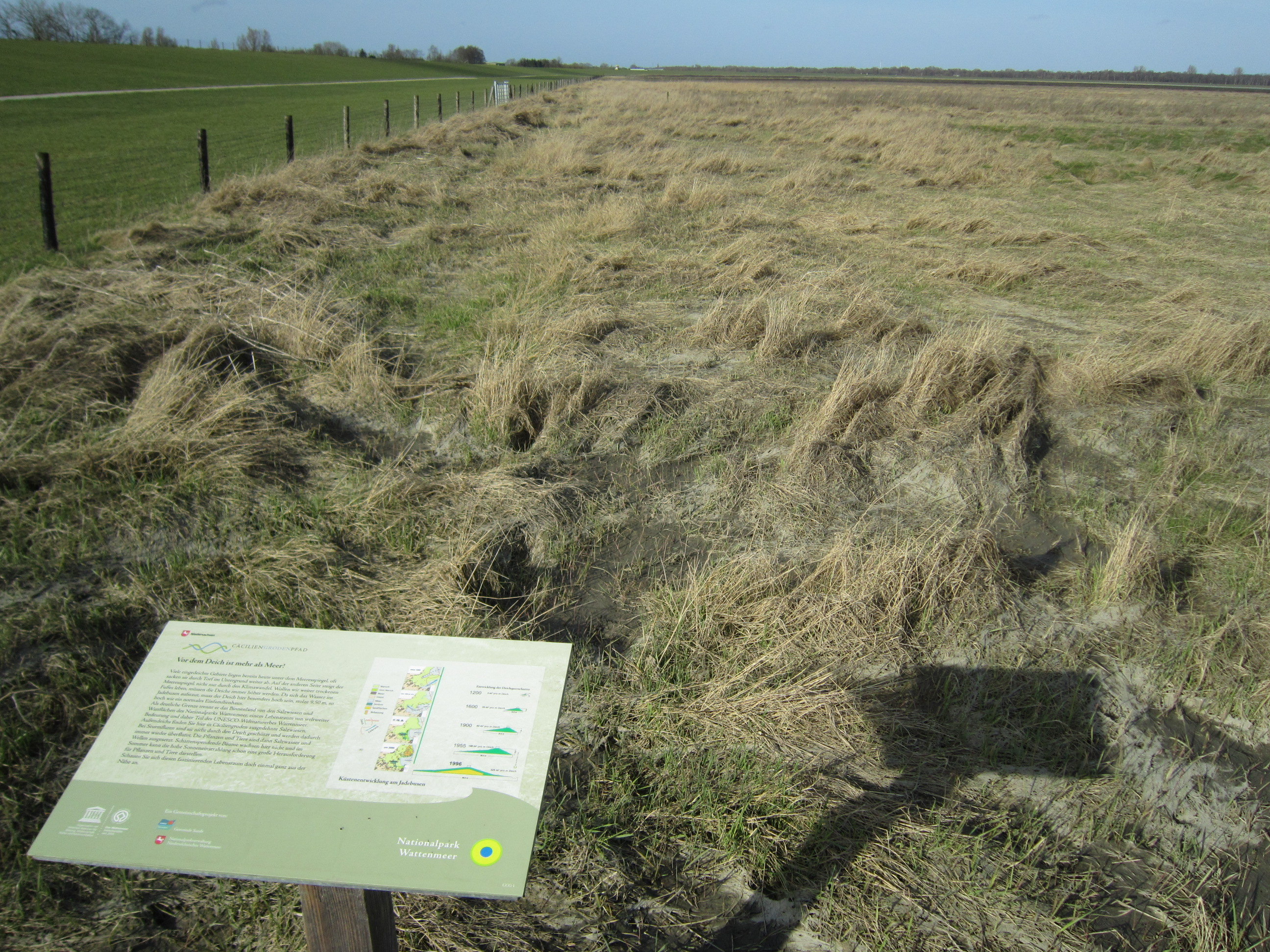 Salt meadow near Cäciliengroden in the Jade Estuar